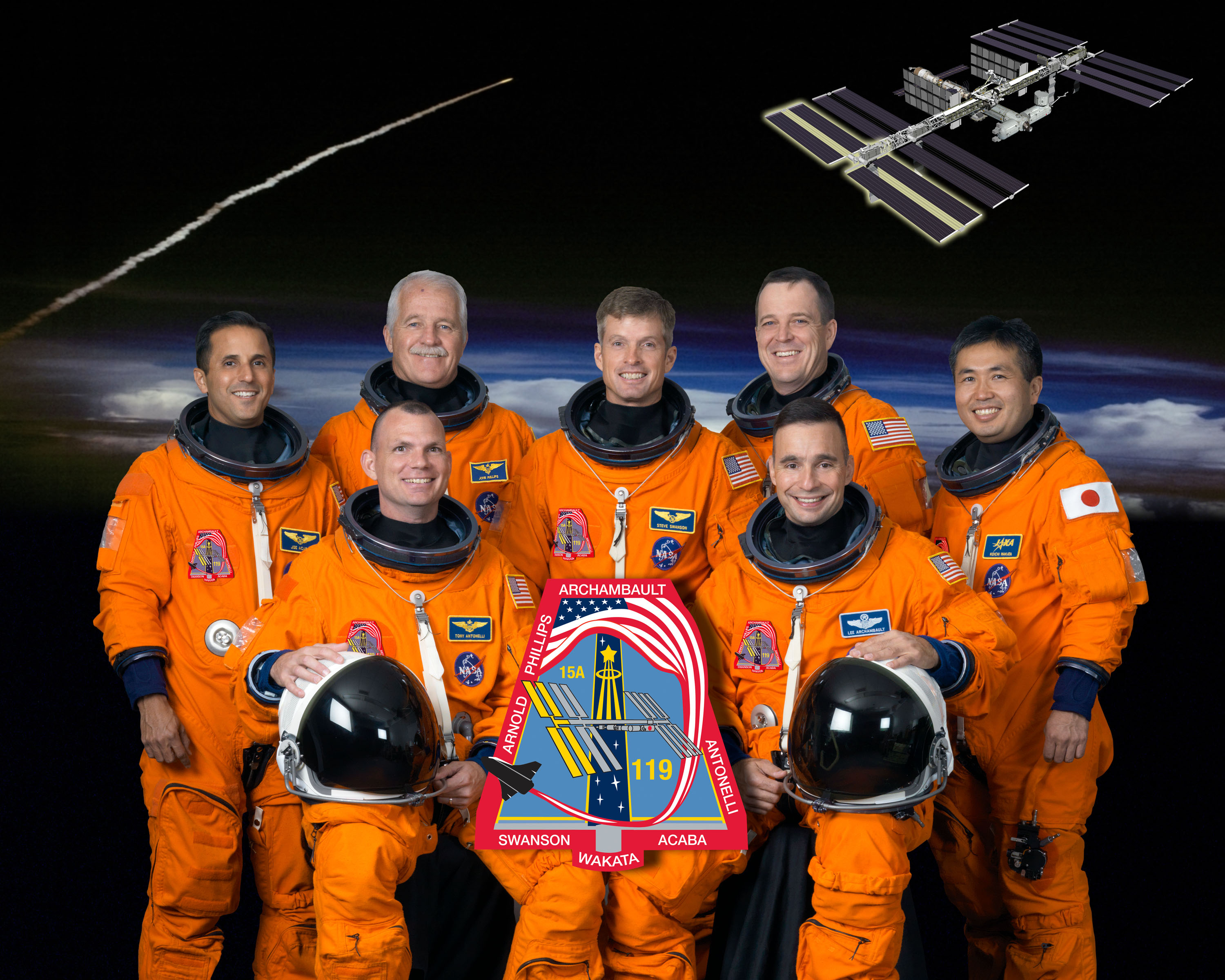 Attired in training versions of their shuttle launch and entry suits, these seven astronauts take a break from training to pose for the STS-119 crew portrait. From the right (front row) are NASA astronauts Lee Archambault, commander, and Tony Antonelli, pilot. From the left (back row) are NASA astronauts Joseph Acaba, John Phillips, Steve Swanson, Richard Arnold and Japan Aerospace Exploration Agency astronaut Koichi Wakata, all mission specialists. Wakata is scheduled to join Expedition 18 as flight engineer after launching to the International Space Station on STS-119.